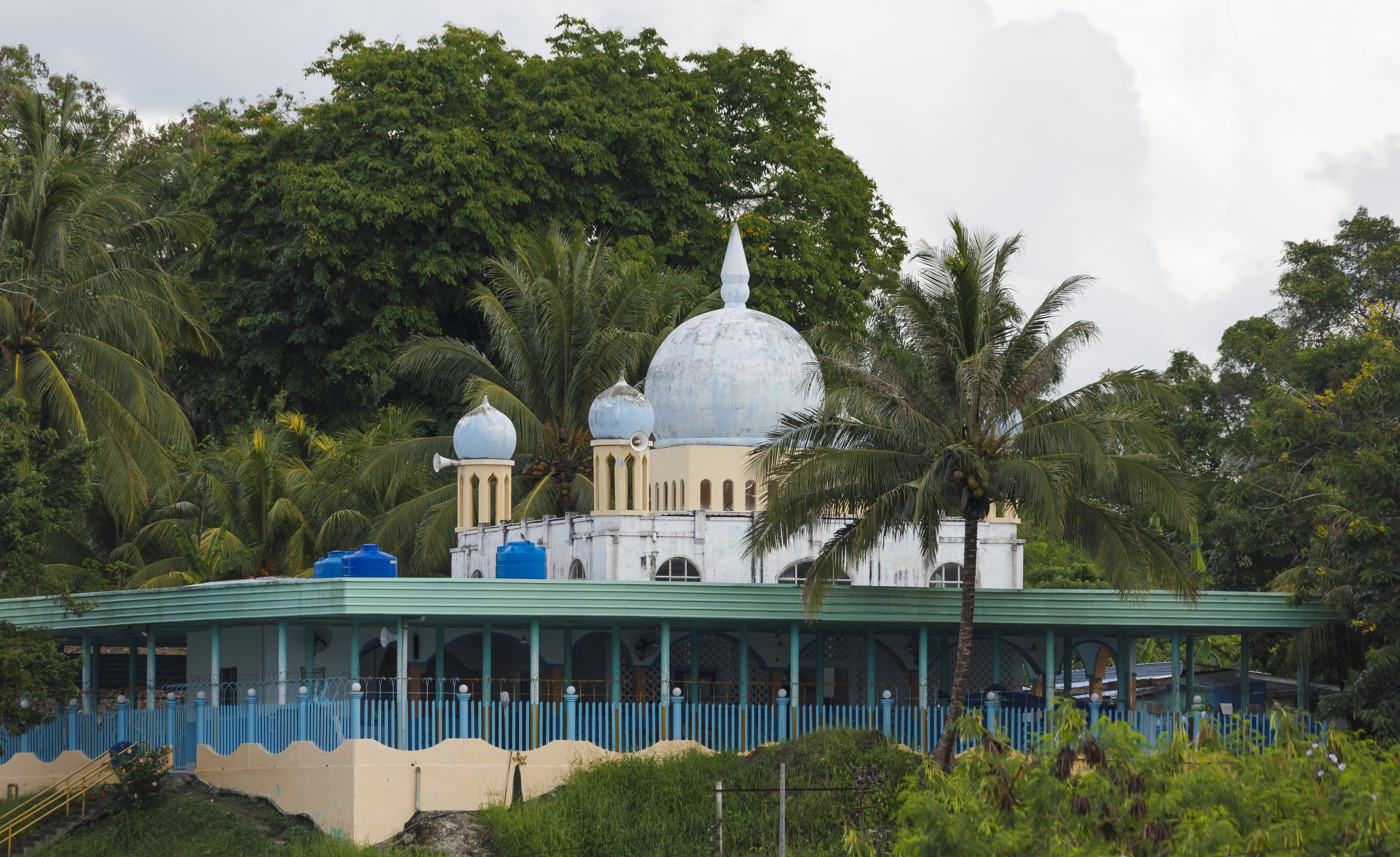 Lahad Datu, Sabah: Masjid Bandar